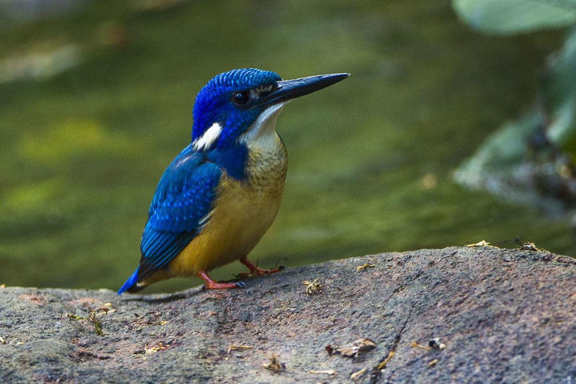 Half-collared Kingfisher - Malawi_S4E4593